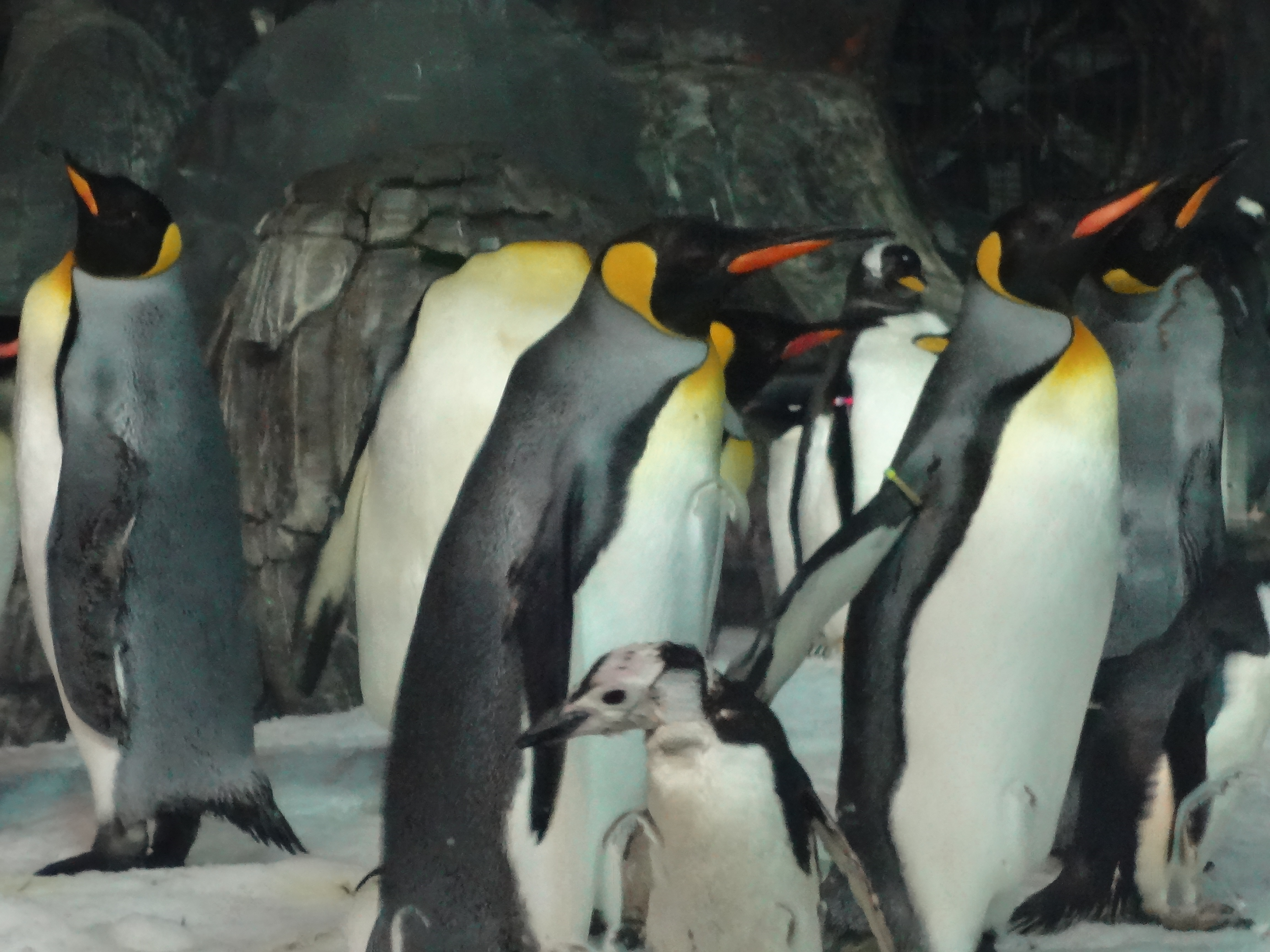 King penguins (Aptenodytes patagonicus) photographed by professional photographer David Adam Kess at Faunia in Madrid, Spain